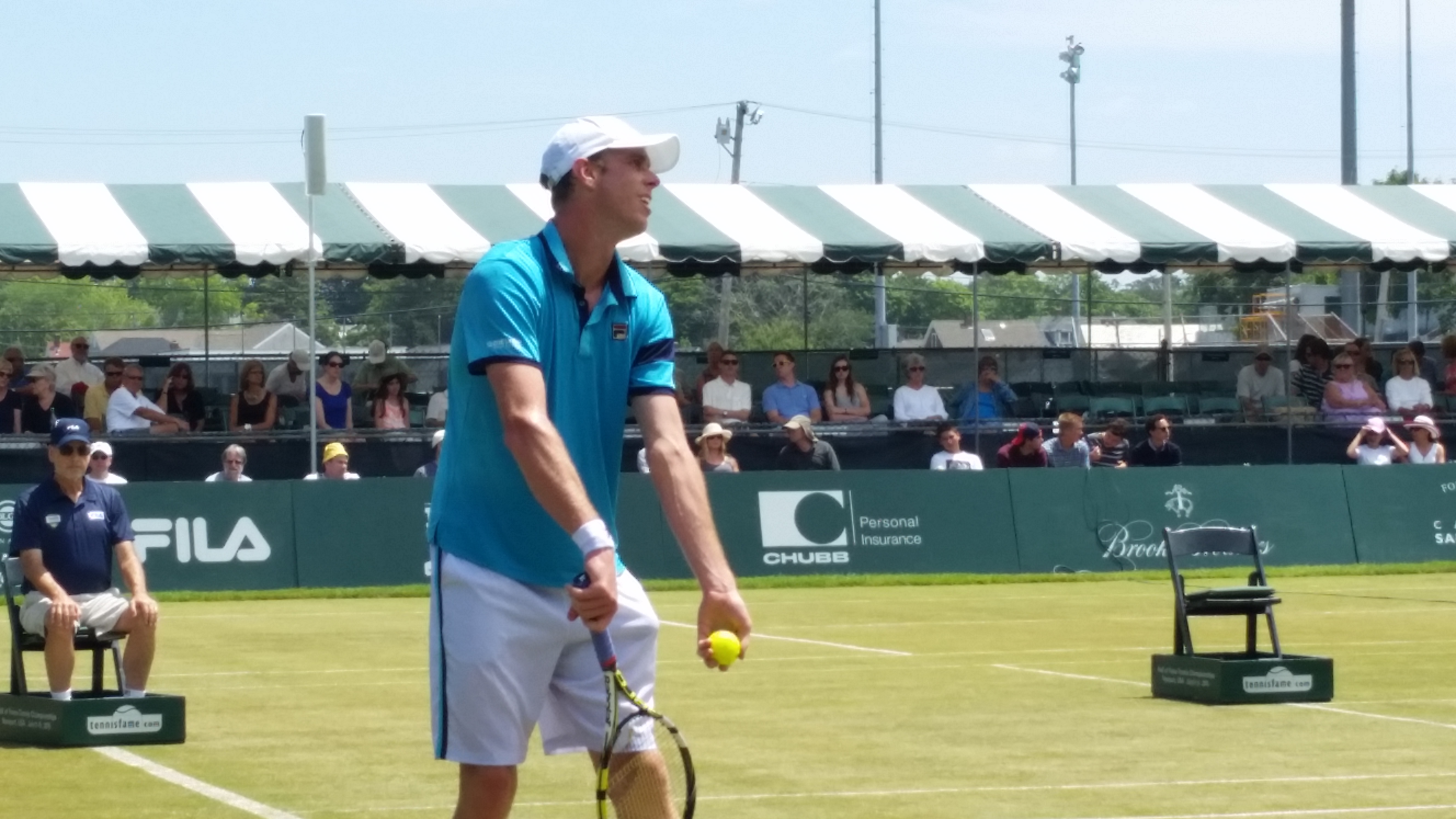 Sam Querrey at 2015 Hall of Fame Tennis Championships in Newport, Rhode Island.